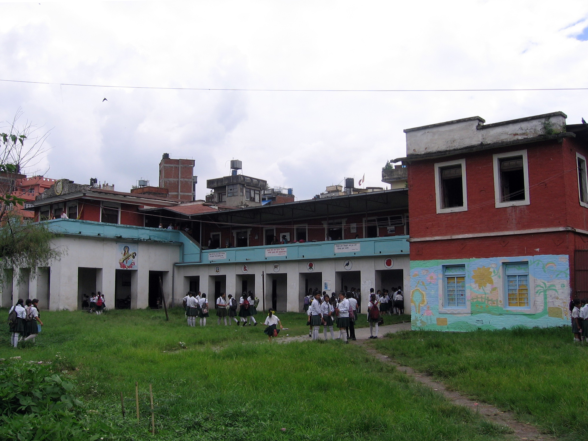 Kanya Mandir High School for girls in Kathmandu, Nepal.